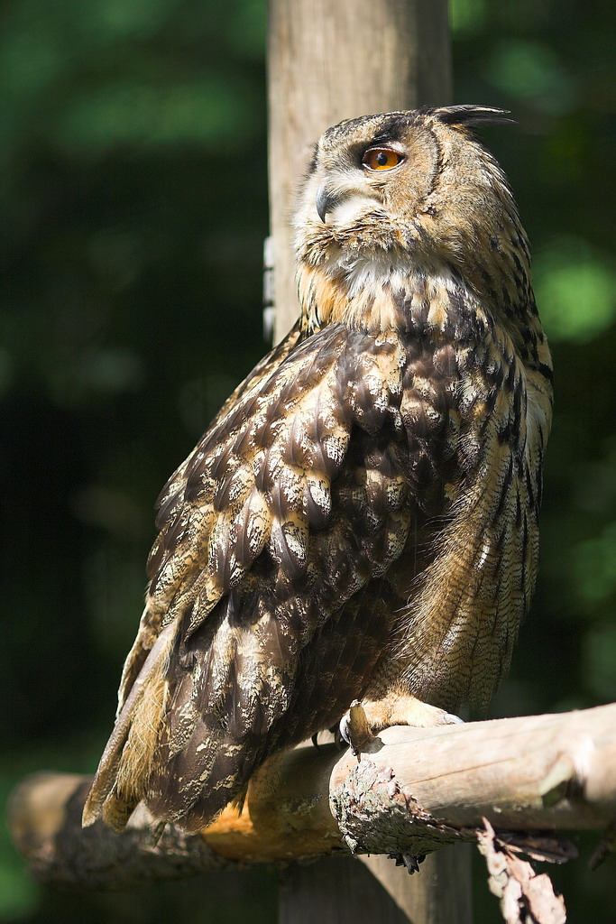 The Image shows a long eared owl (Asio otus) focusing on something, the head turned about 180degrees